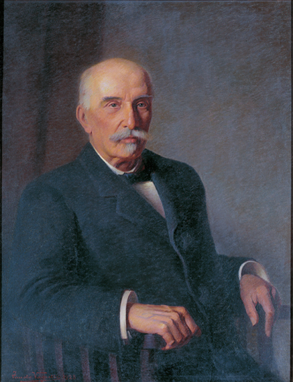 Portrait of Giovanni Giolitti (1842-1928)